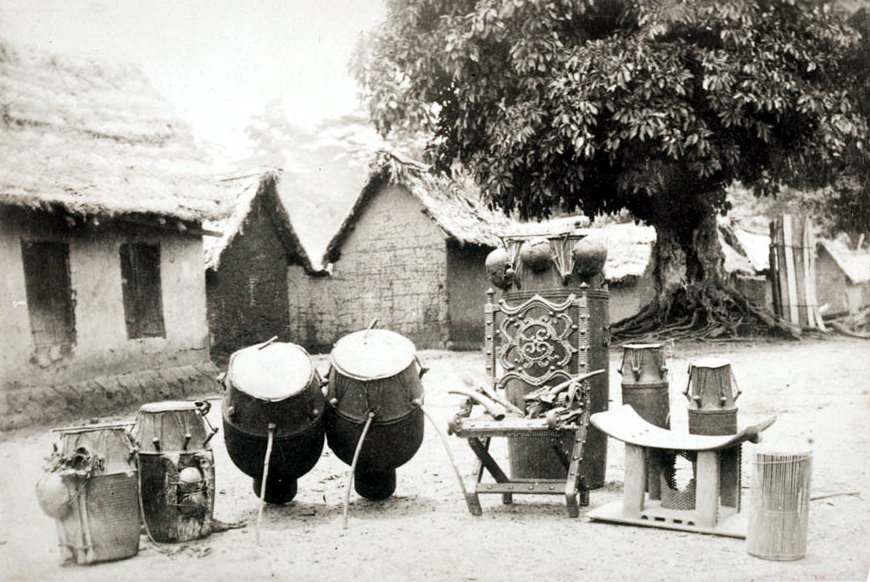 Drums belonging to the chief of Begoro